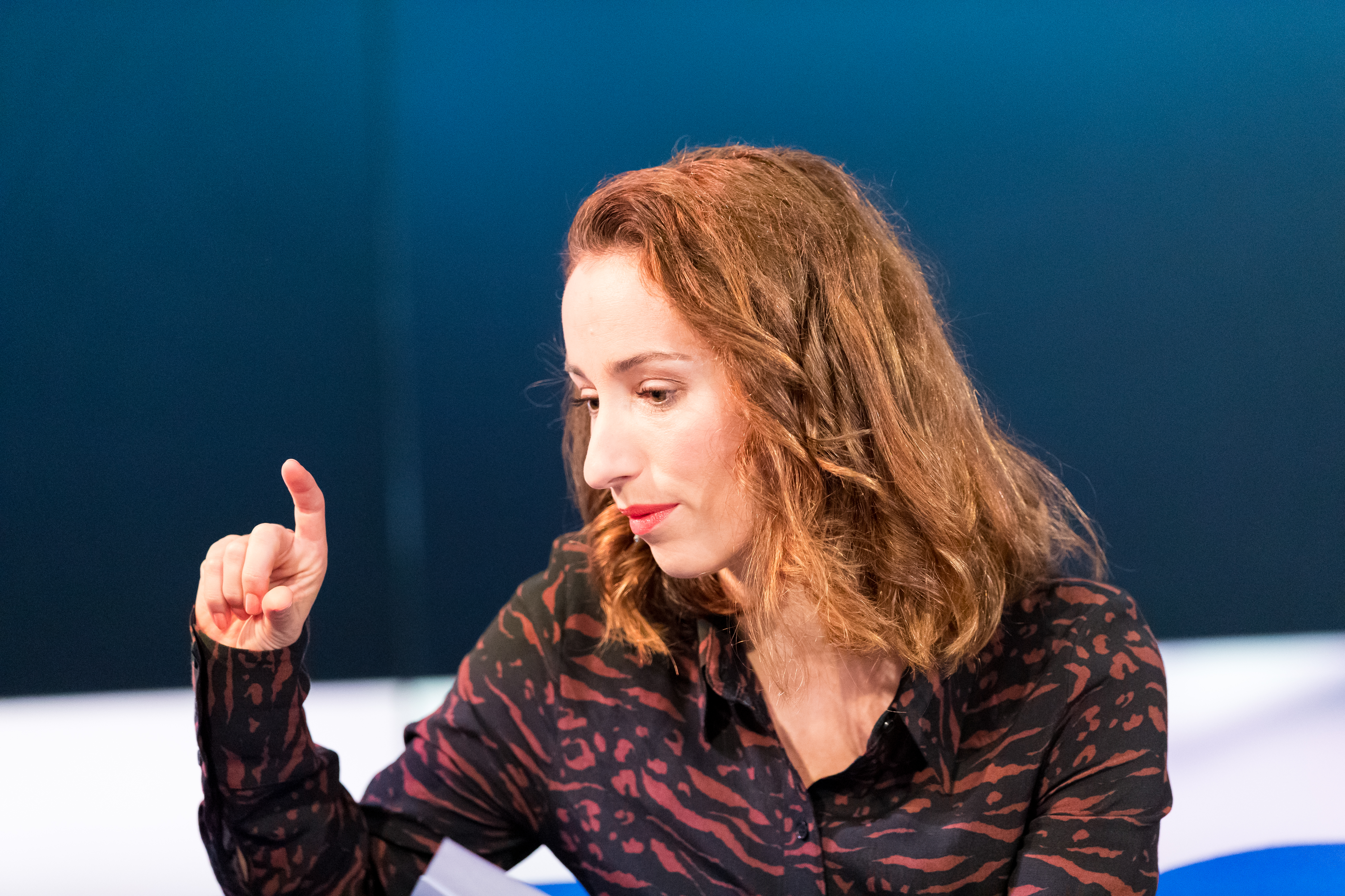 Vivian Perkovic during Frankfurter Buchmesse at Messe Frankfurt, Frankfurt, Hessen, Germany on 2018-10-13, Photo